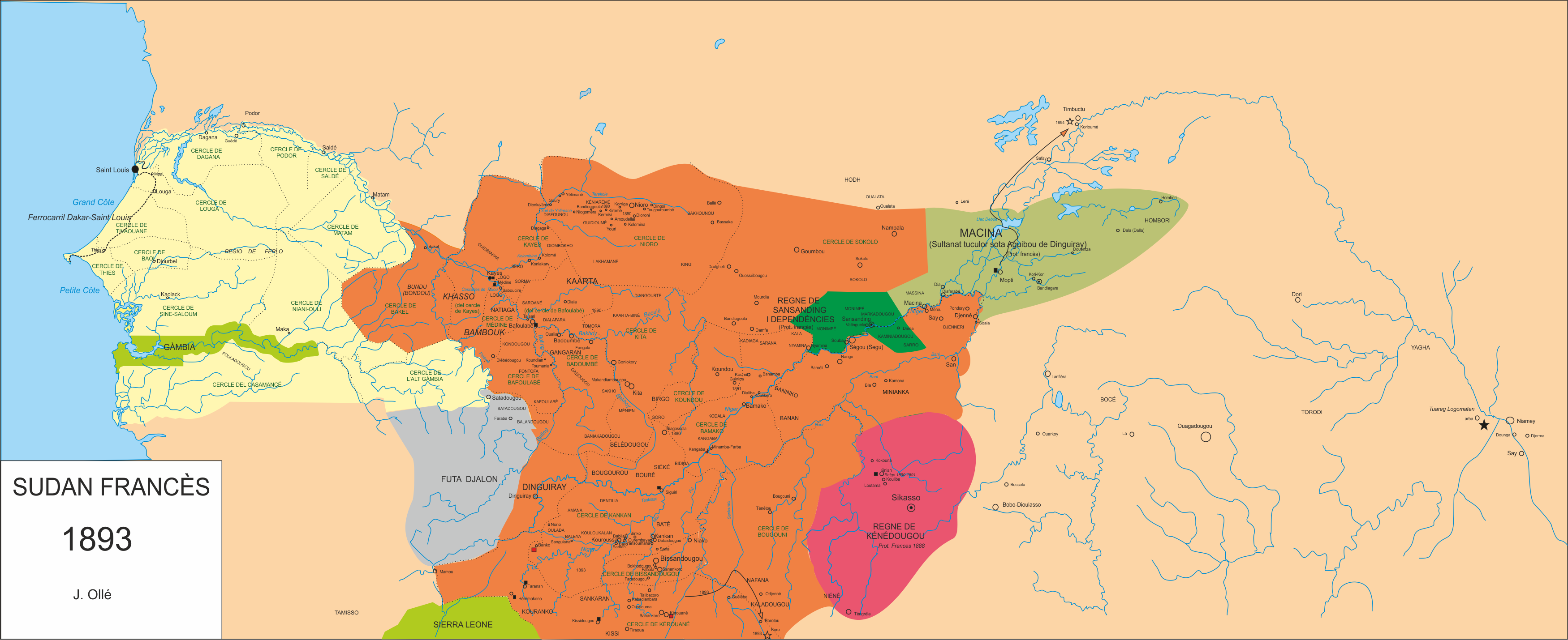 Senegal & Mali 1893